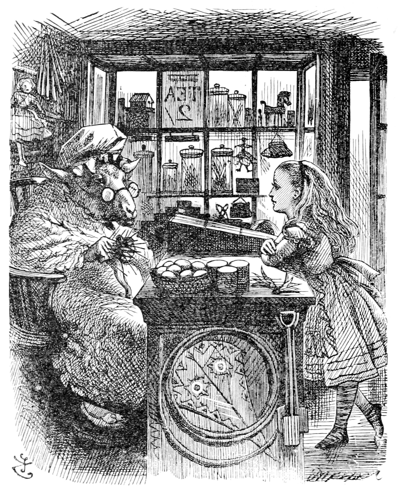 Alice and the Knitting Sheep. Illustration by Sir John Tenniel to "Through the Looking-Glass and What Alice Found There", chapter "Wool and Water"